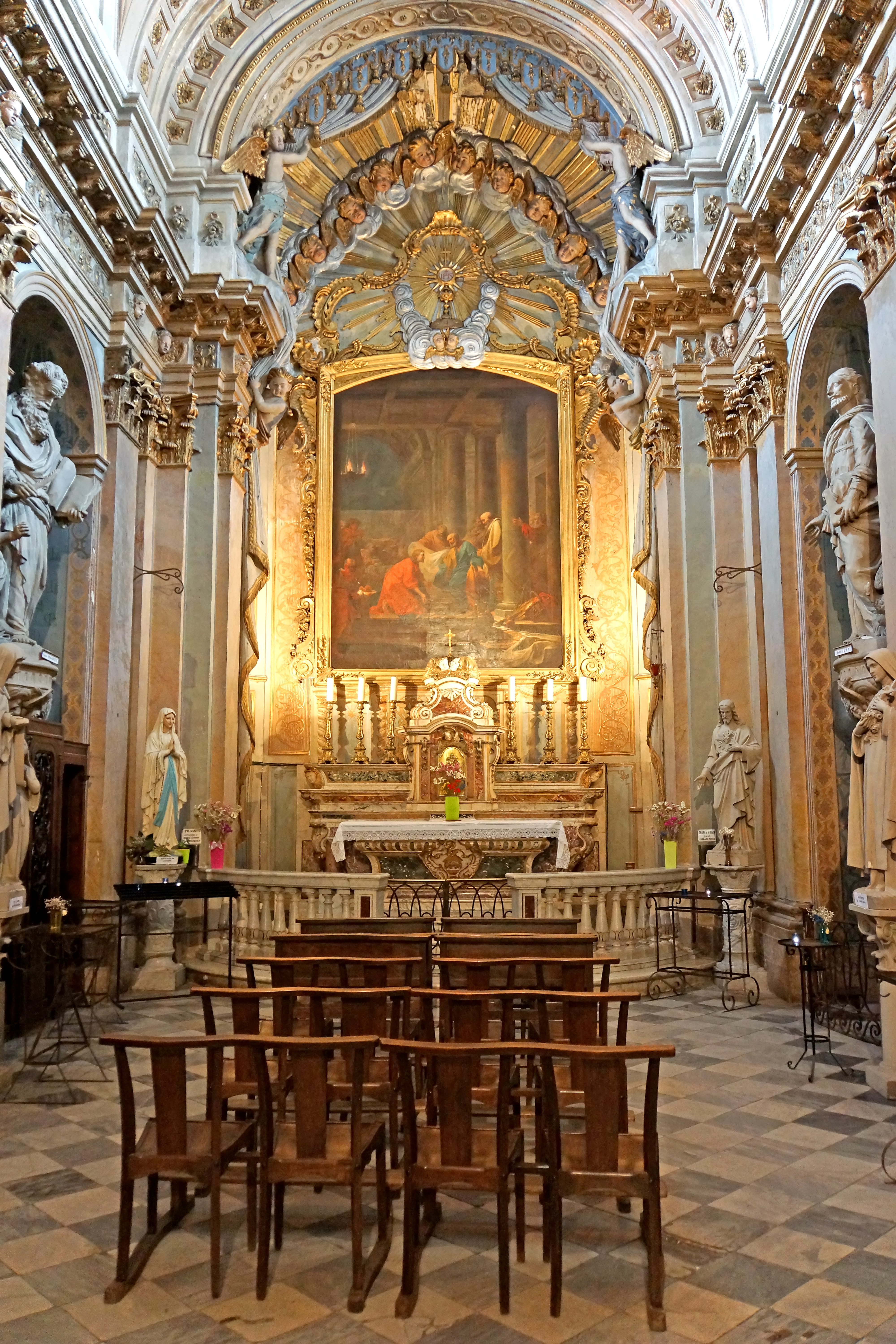 PLEASE, NO invitations or self promotions, THEY WILL BE DELETED. My photos are FREE to use, just give me credit and it would be nice if you let me know, thanks. Painting is "The washing of the feet" by Jean-Honoré Fragonard in 1754, is an order of the brotherhood of the Blessed Sacrament. It is one of the rare religious works of the artist from Grasse.